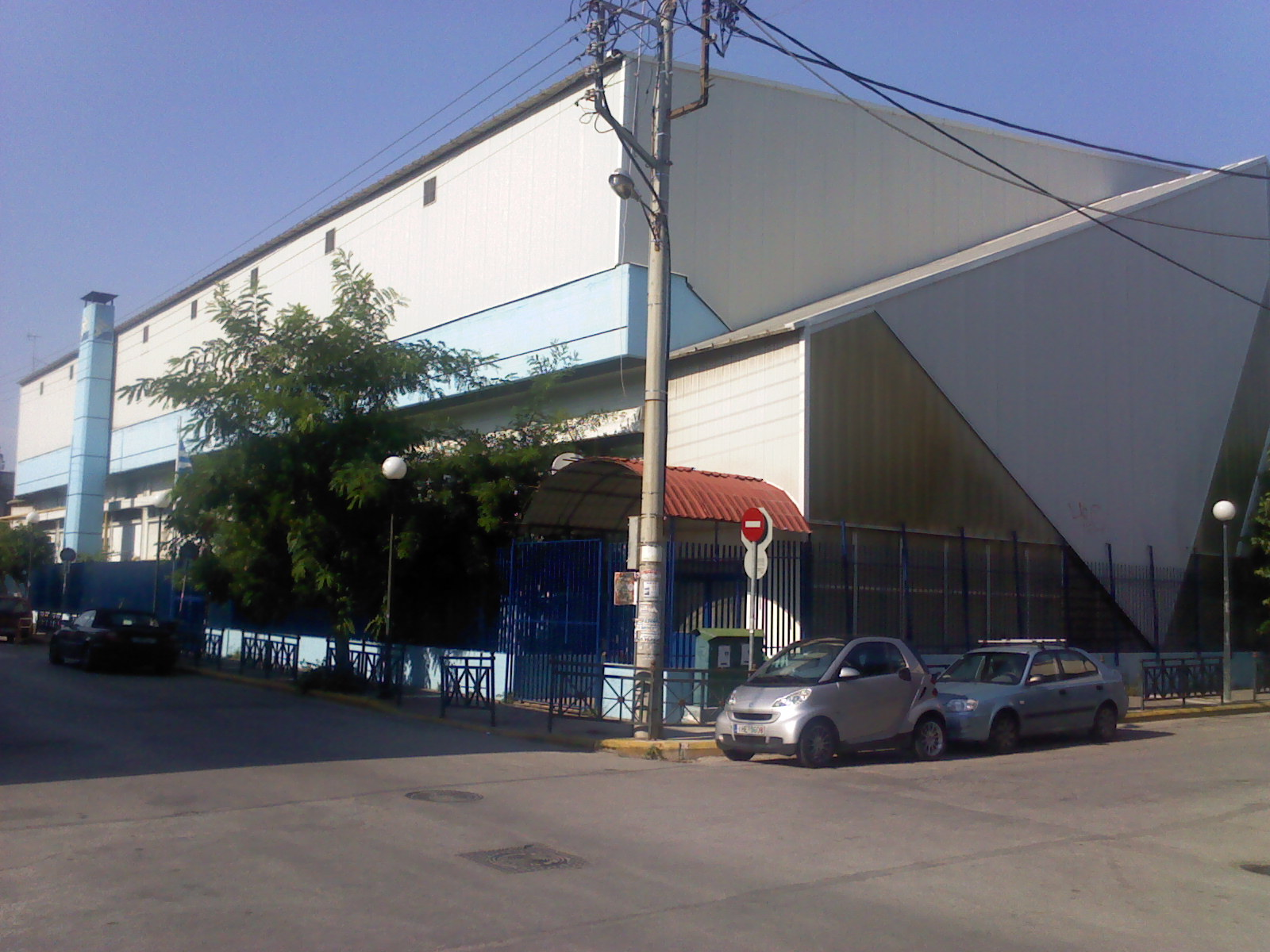 Papastrateio Gymnastirio Piraia